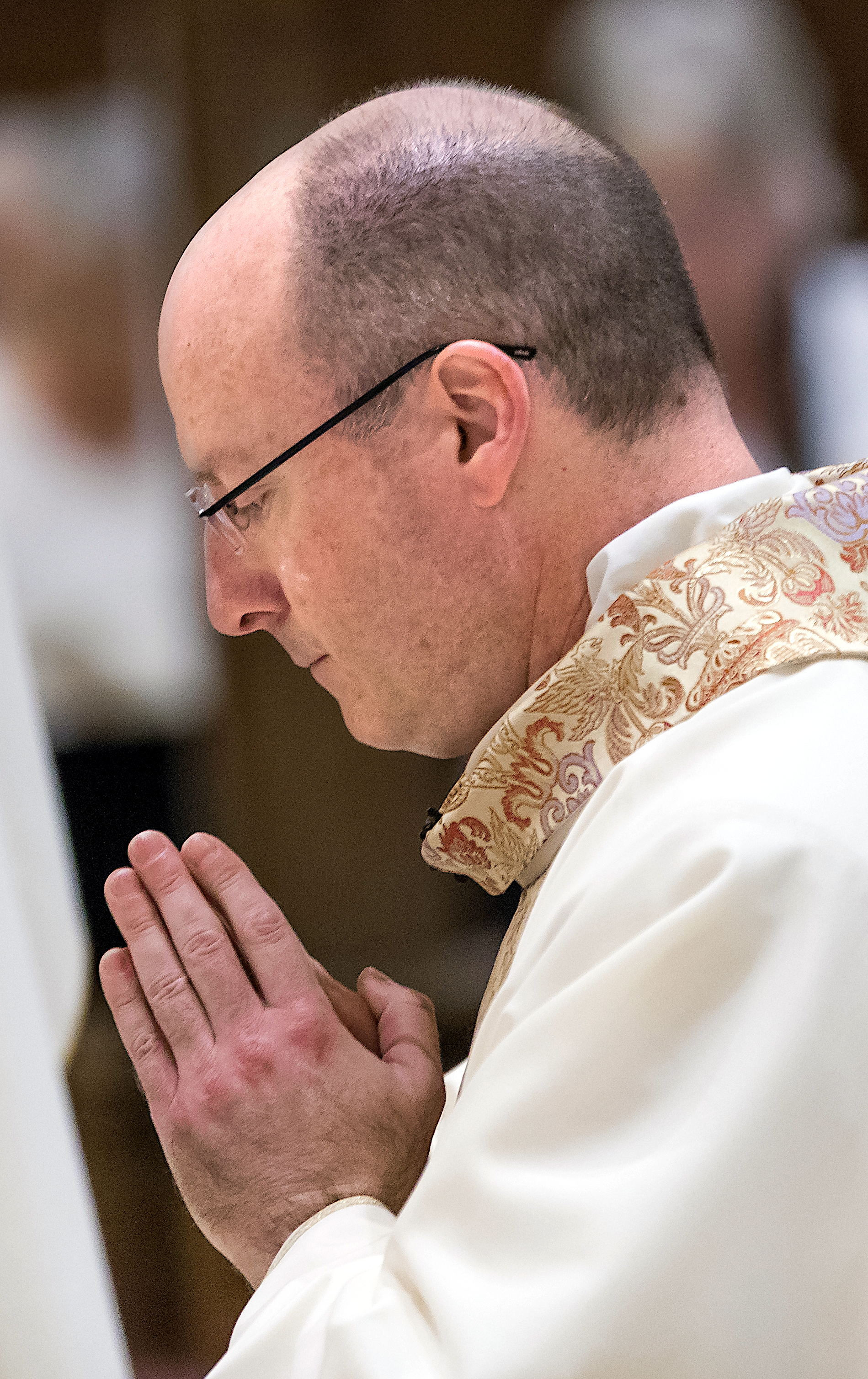 Permission to the diocese of Jefferson City for their use.